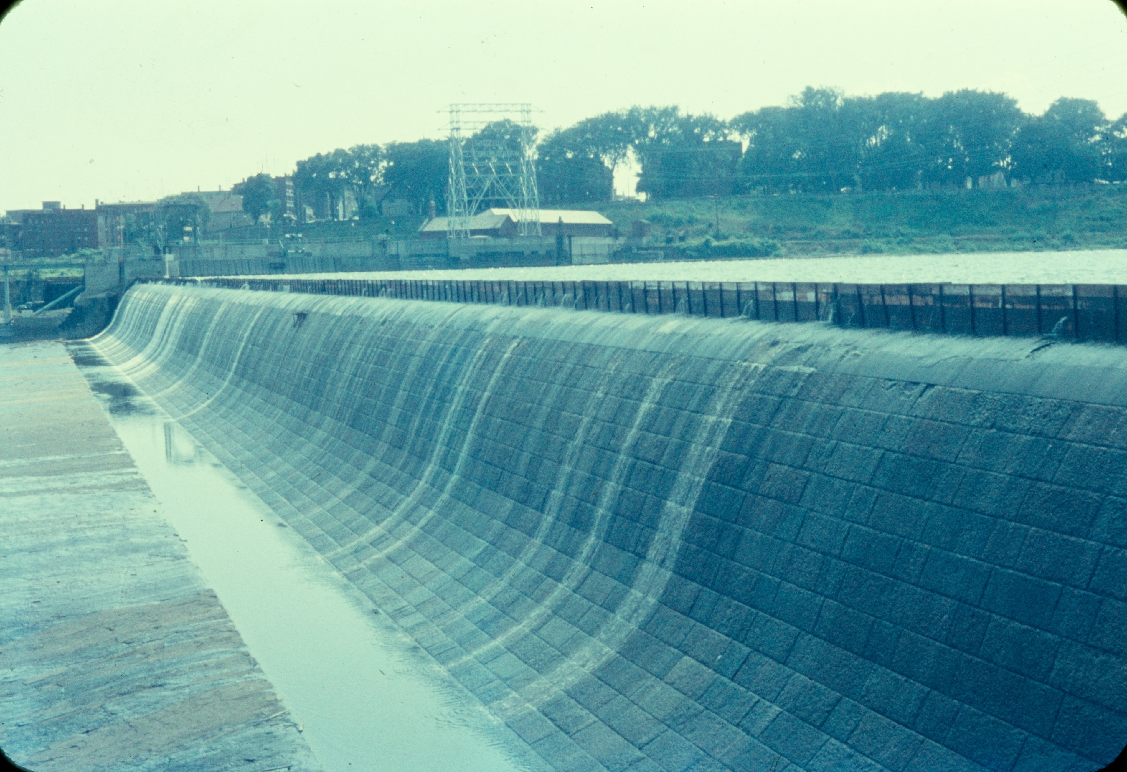 The Holyoke Dam with an earlier flashboards, sometime prior to the redevelopment and modernization of the dam system by the Holyoke Water Power Company. In the background the original gatehouse of the Holyoke Canal System may be seen, along with Pulaski Park.